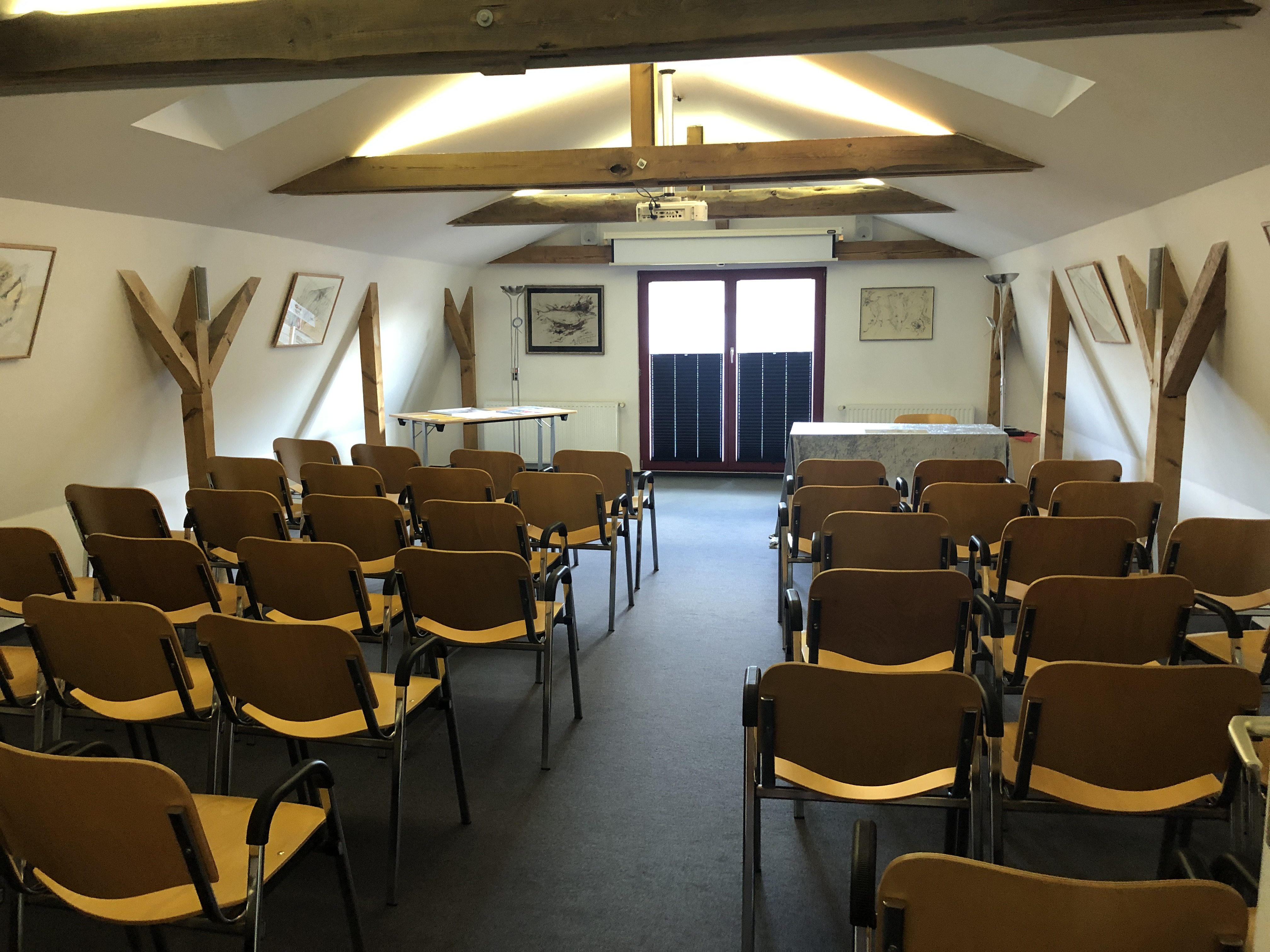 Günther-Grass-Zimmer in the Hans-Werner-Richter-Haus, Usedom